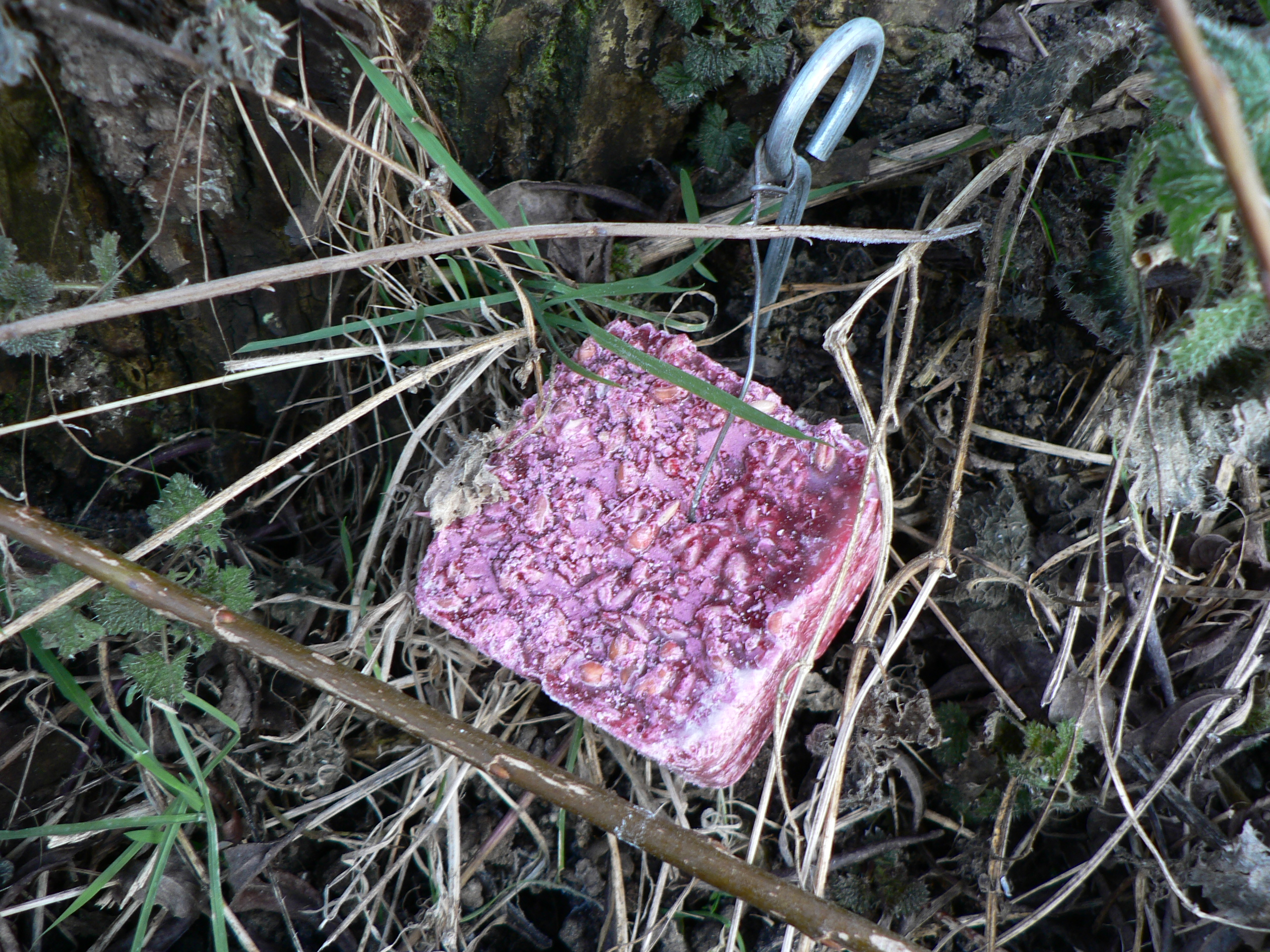 block with grains and rat poison (coumarin?)